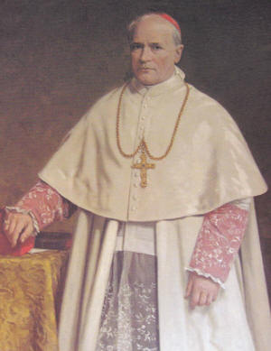 Cardinal Girolamo Maria Gotti